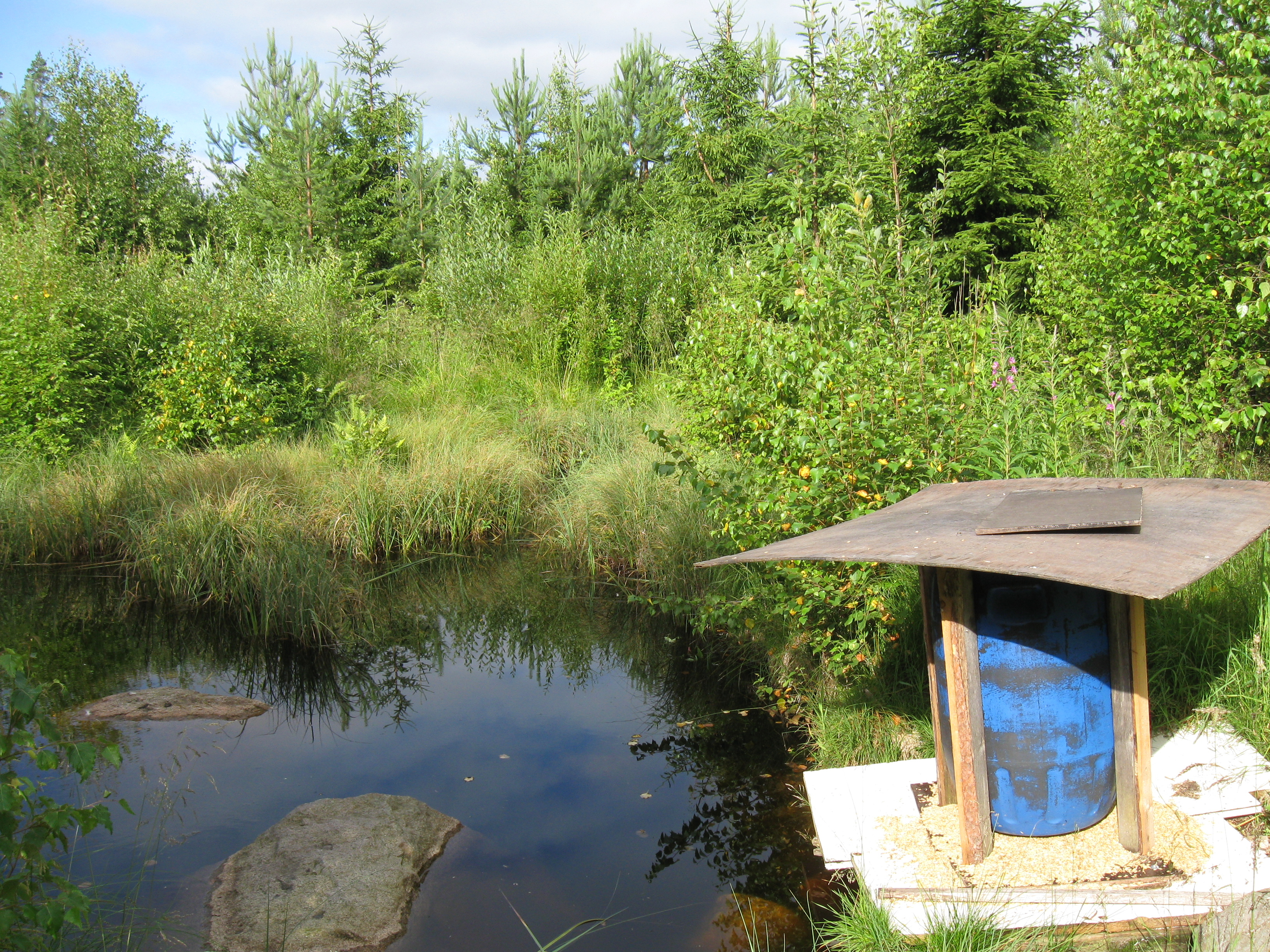 Water bird feeding unit built for hunting at a small artificial pond in Parikkala, Finland.